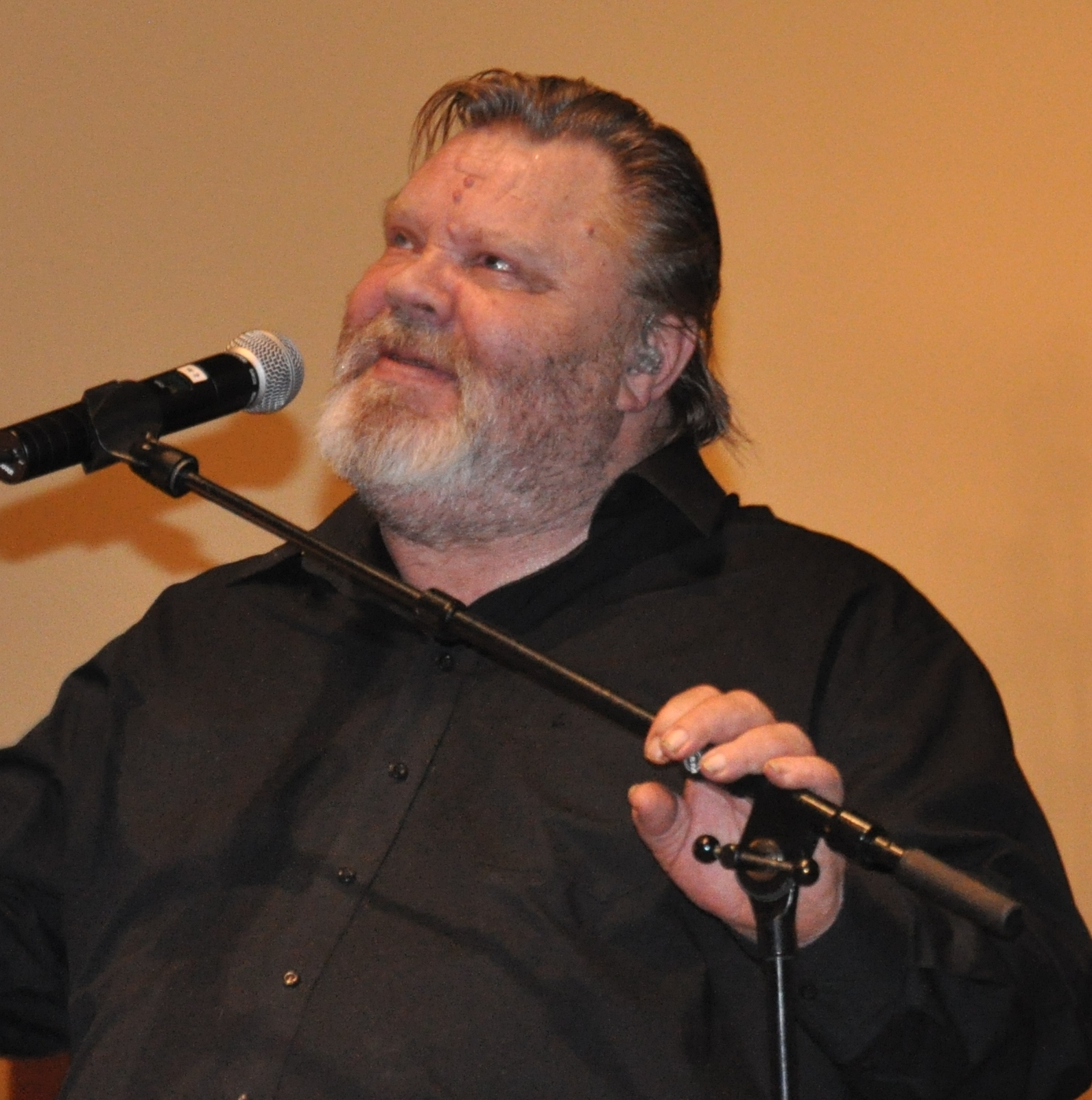 Finnish singer and actor Vesa-Matti Loiri performing in St Michael's Church in Turku 2009.